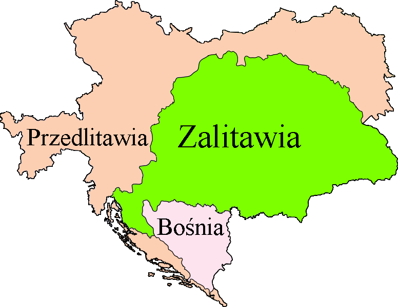 Transleithania